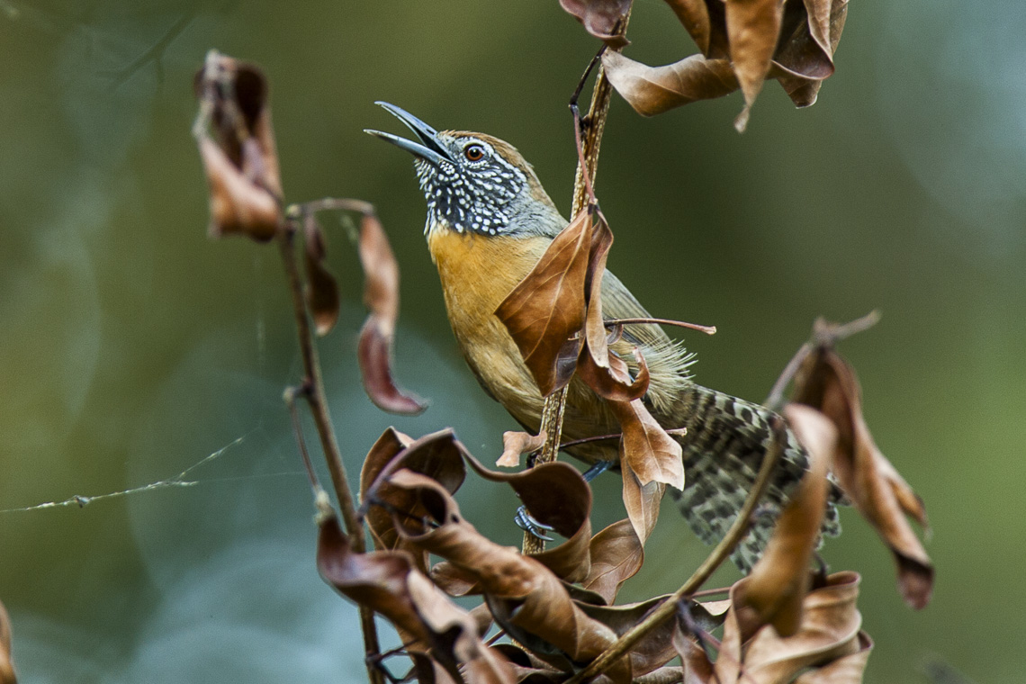 Rufous-breasted Wren - Panama_H8O7861